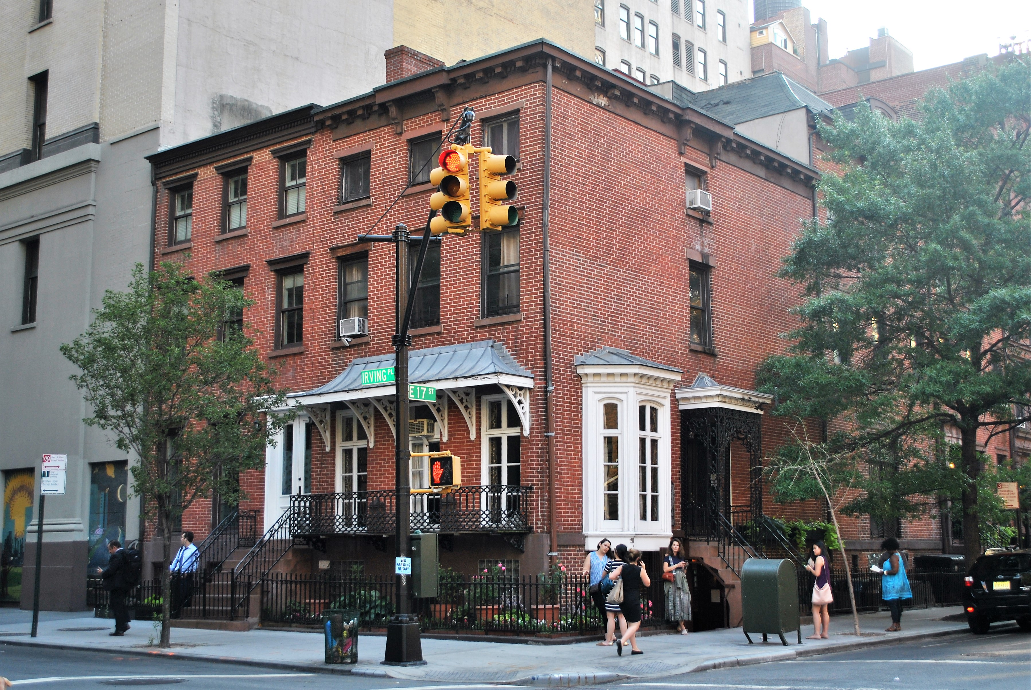 Image originally published in Queer Places: Retracing the Steps of LGBTQ people around the World Authored by Elisa Rolle